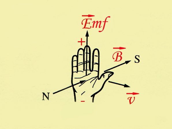 Right-hand_rule